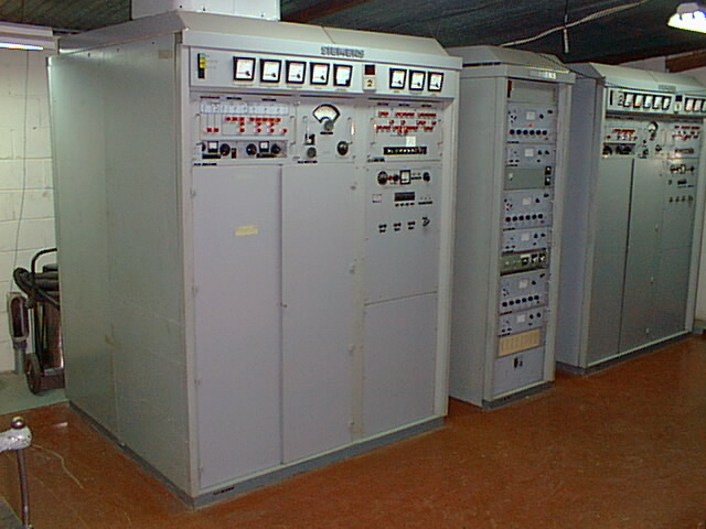 Two Siemens transmitters 20 Kw PEP linear amplifiers, used at HCJB, Quito Ecuador.